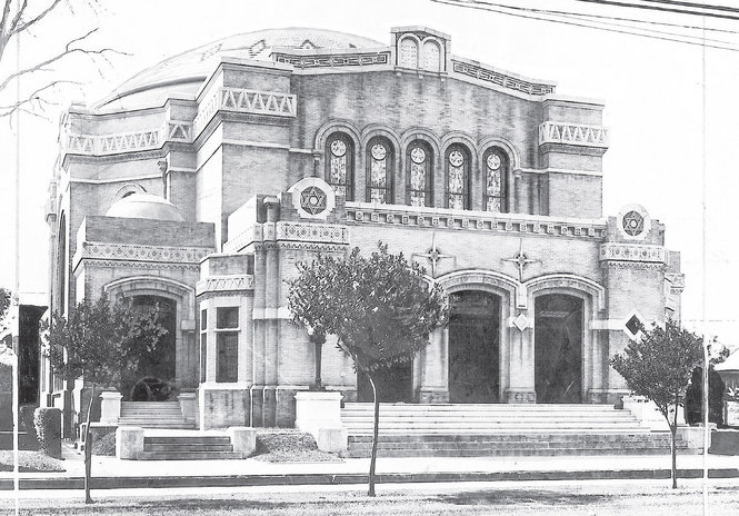 Touro Synagogue, New Orleans.